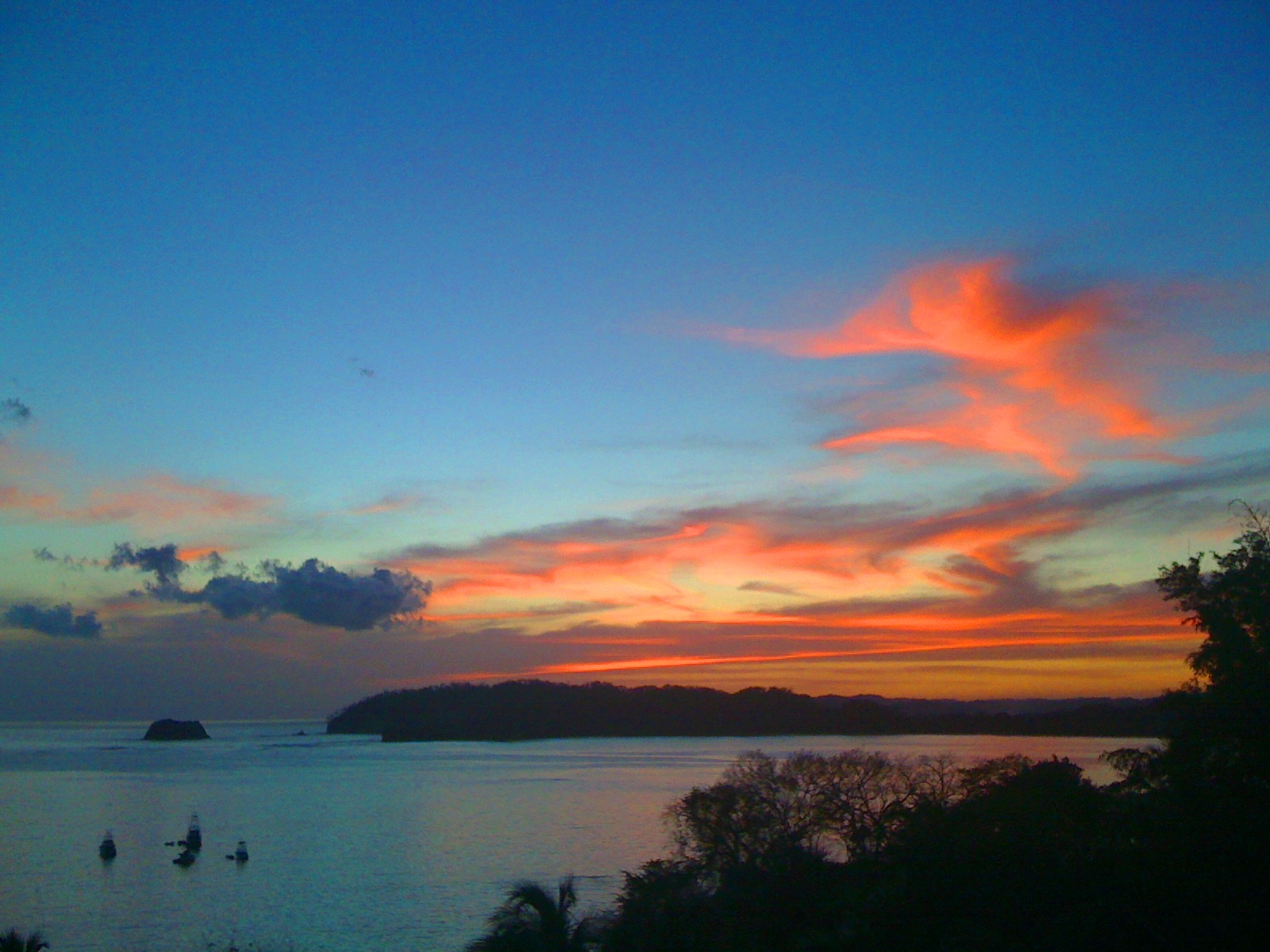 Atardecer de Carrillo Punta Indio